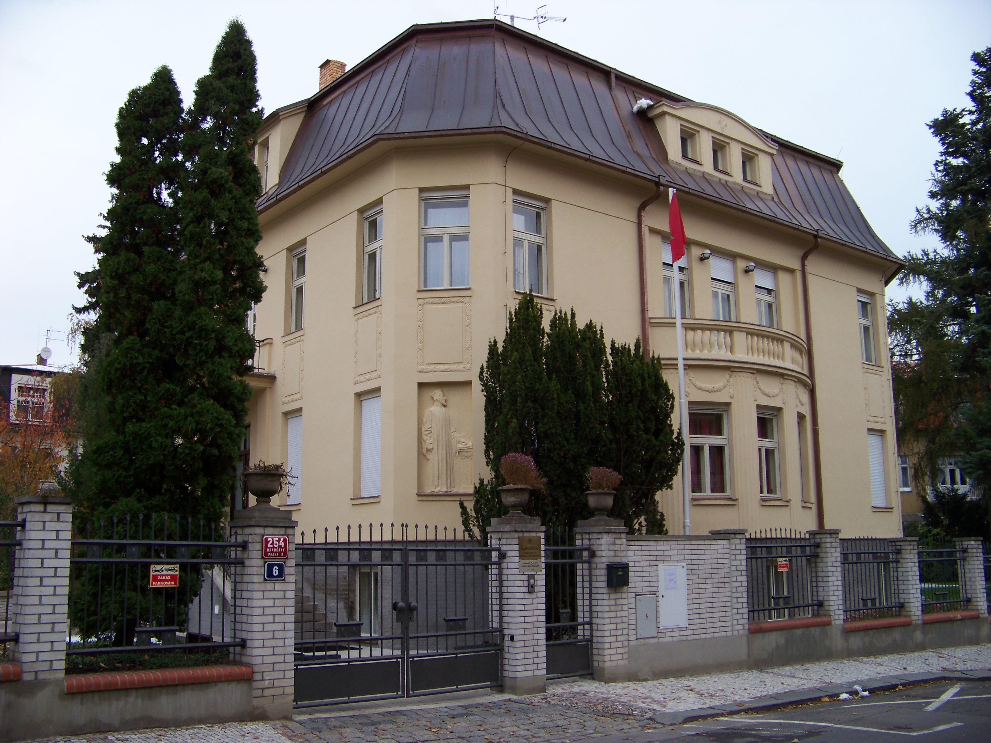 Prague-Hradčany, the Czech Republic. Mickiewiczova 254/6, embassy of Morocco. - OpenStreetMap(Info)